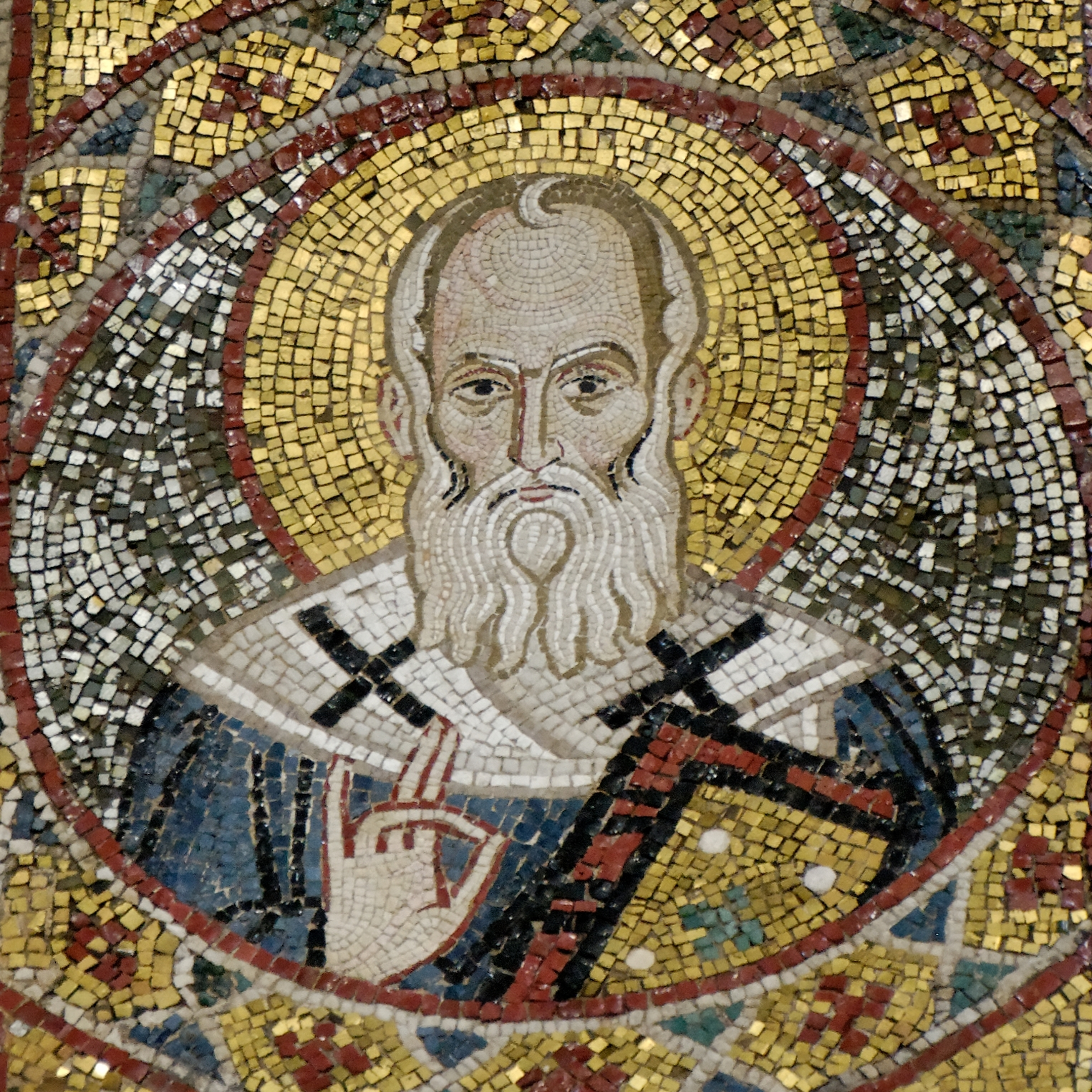 St. Gregory of Nazianeus, 12th-century mosaic. Pendant on the eastern arch arch (northern side) of the crossing of the transept, La Martorana, also known as Santa Maria dell'Ammiraglio in Palermo, Sicily.